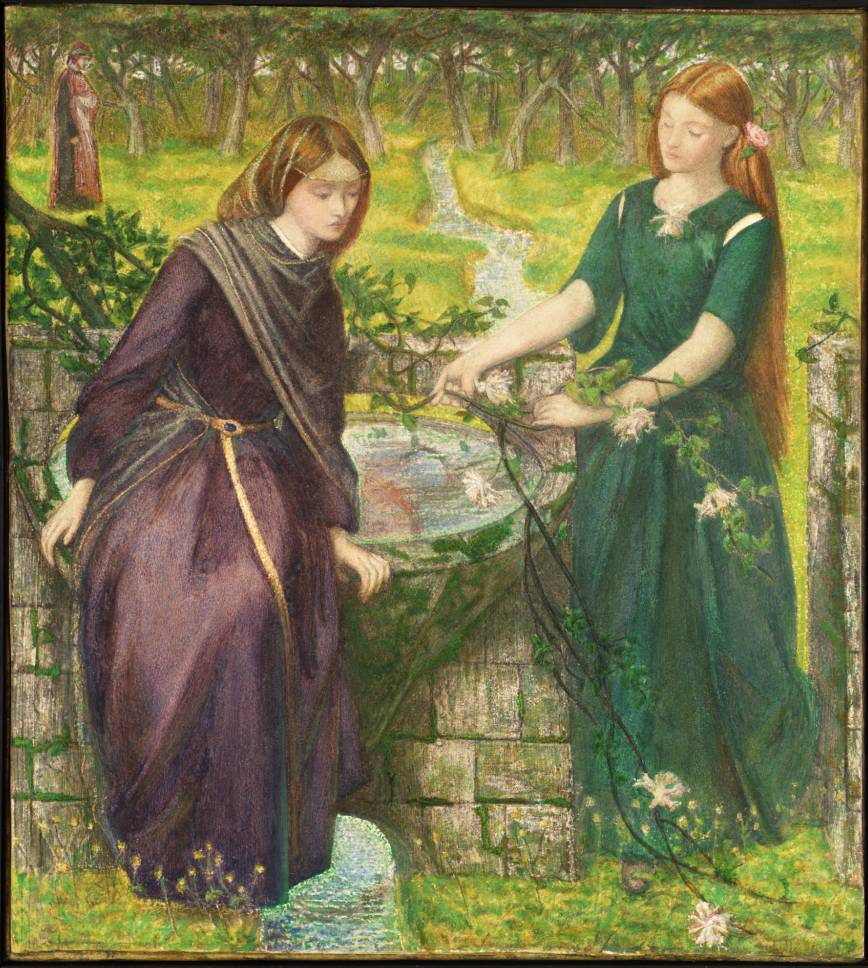 A scene from Canto XXVII, Purgatorio, Divina Commedia.